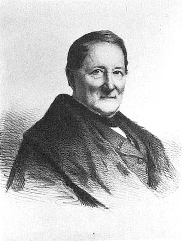 Pictured person: Joseph Strauss